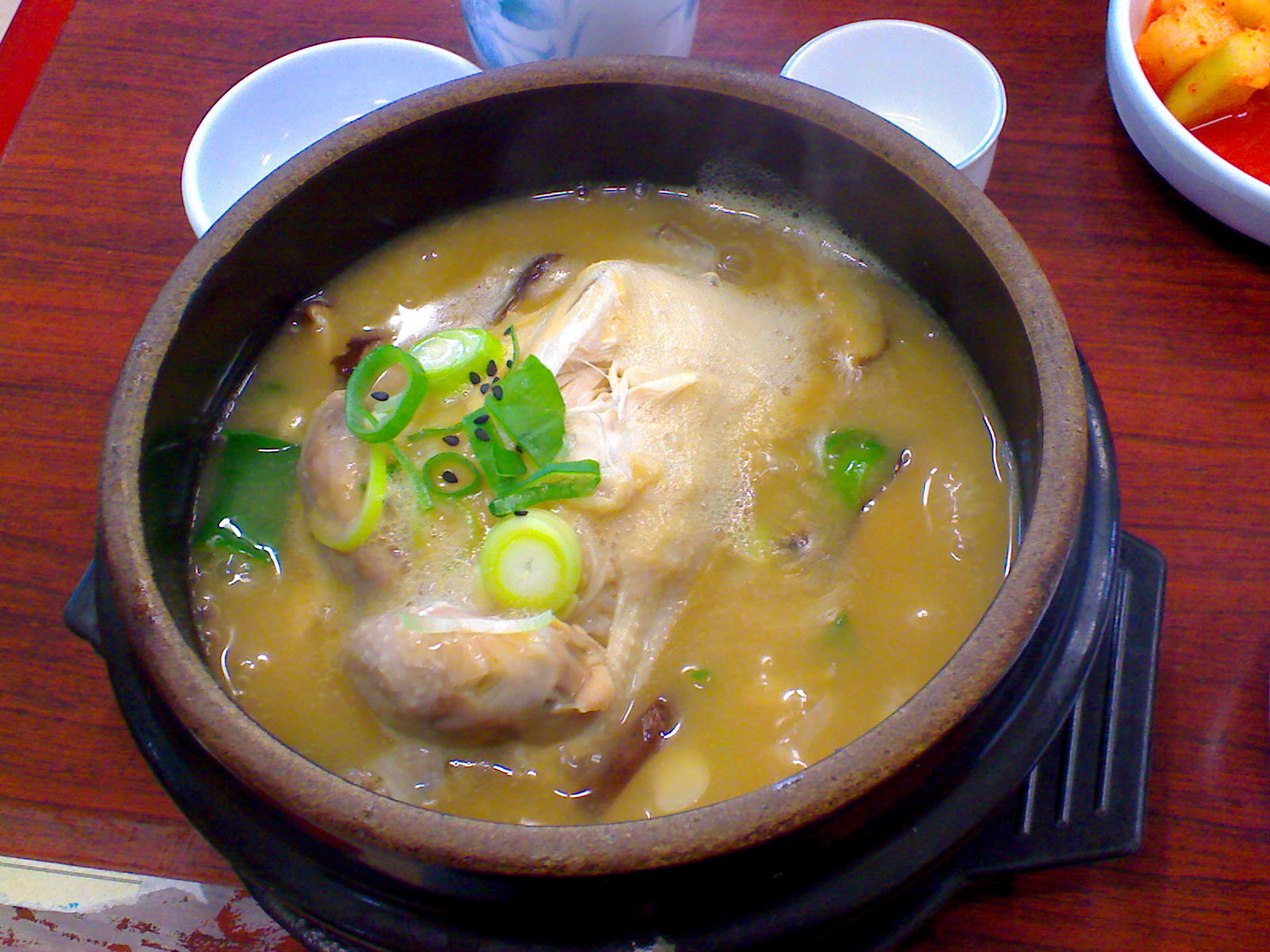 Samgyetang (chicken ginseng soup) in Korean cuisine